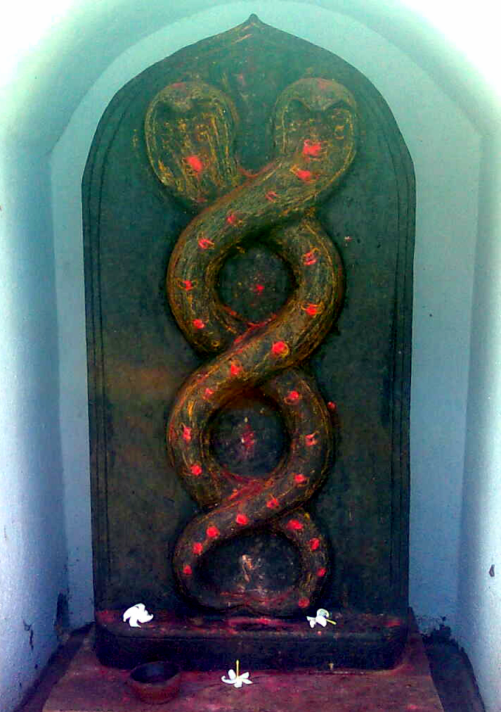 Serpent deity relief at the temple in Pogallapalli Village of Mulakalapalli Taluk in Khammam district, Andhra Pradesh